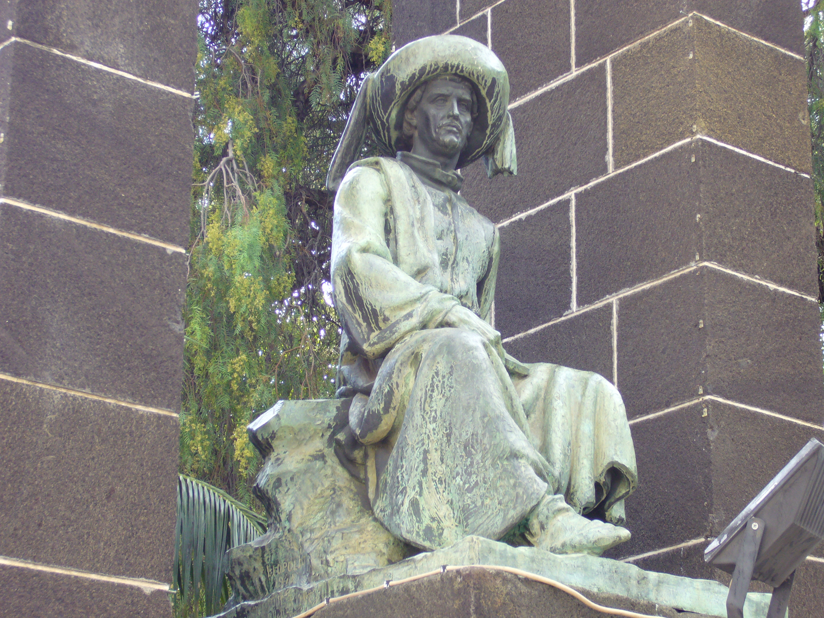 Henry the navigator statue in Funchal - Madeira